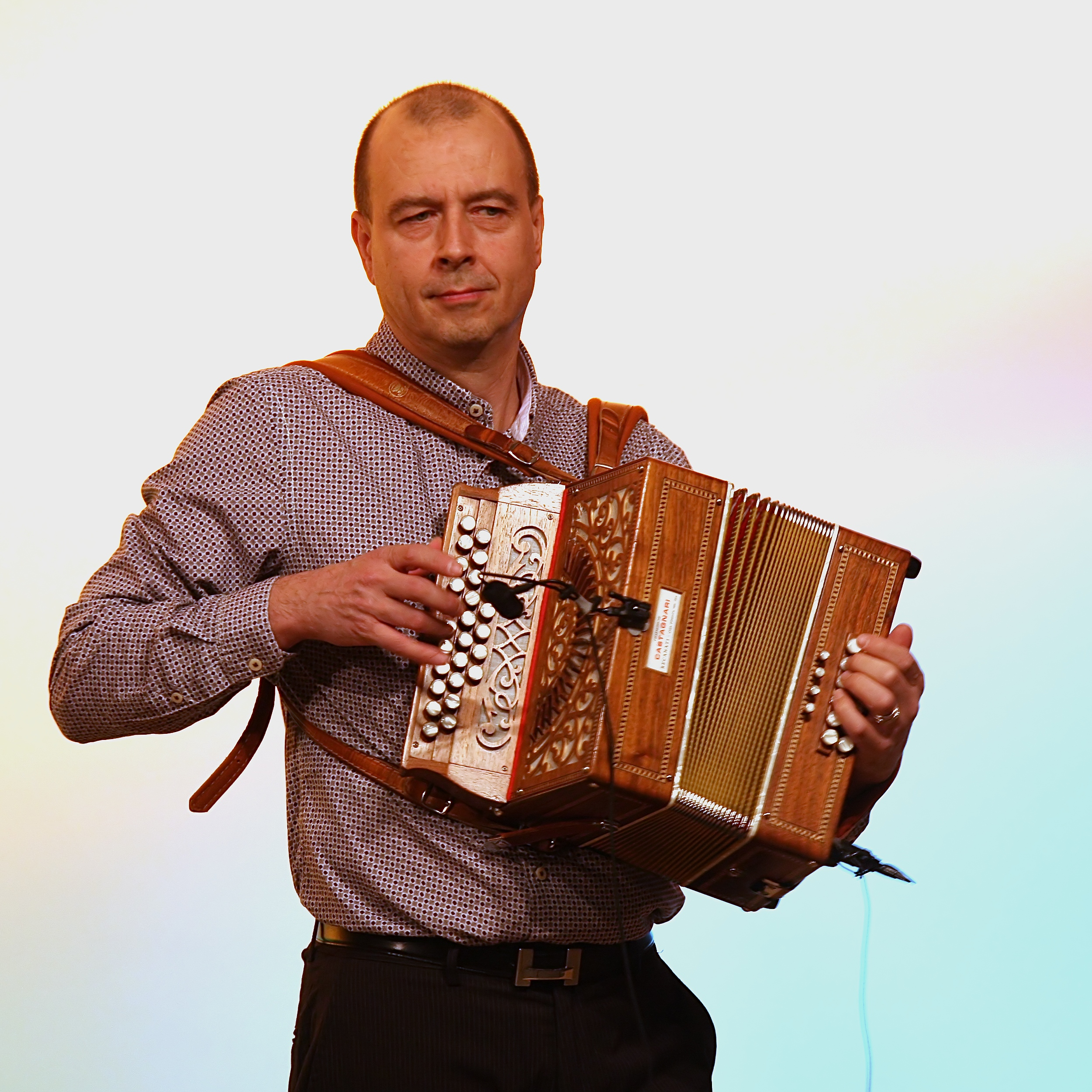 Markku Lepistö (akkordion) during a concert in the Domforum, Cologne, Germany